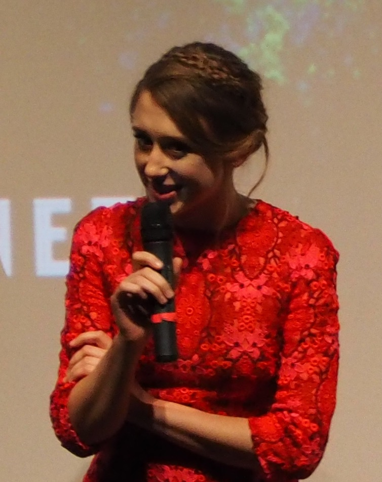 Actress Taissa Farmiga at the 2015 Toronto International Film Festival